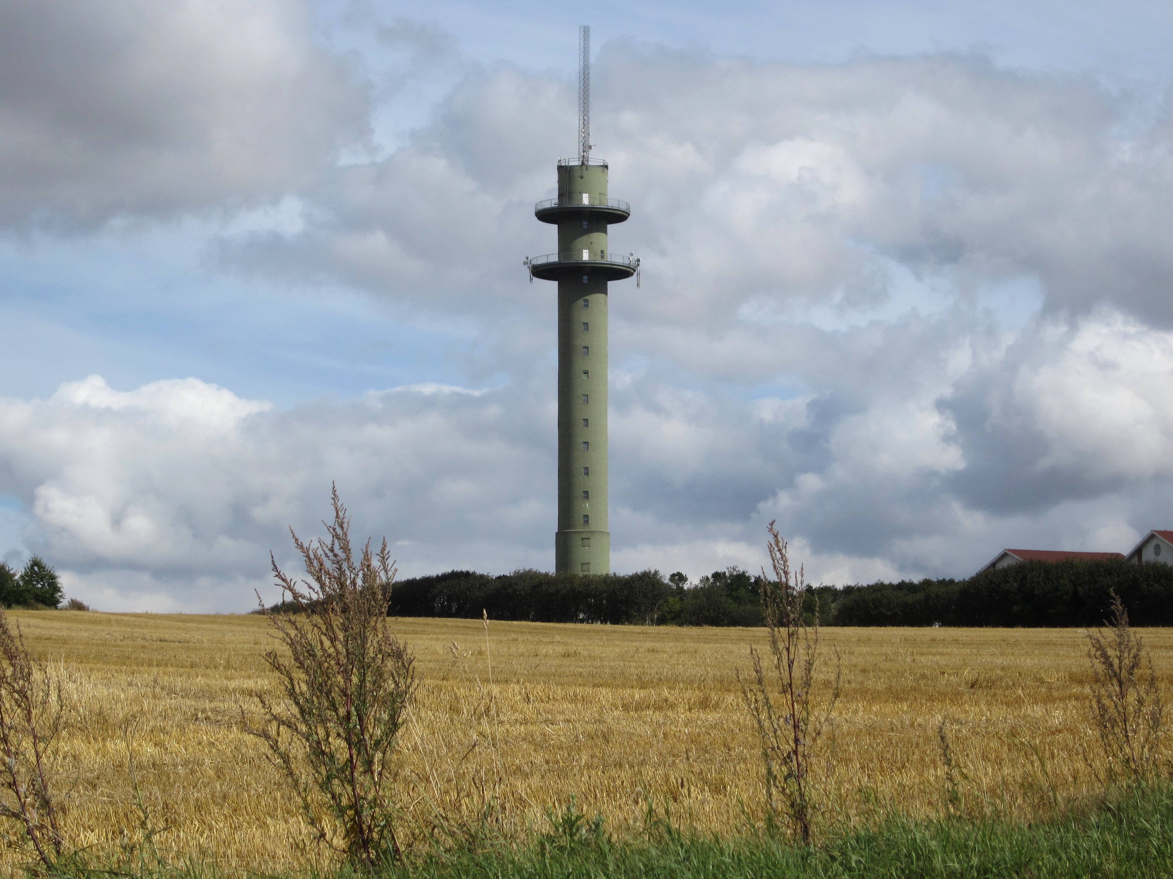 Sorring Tårnet (tv-tower) in Central Jutland (Denmark)